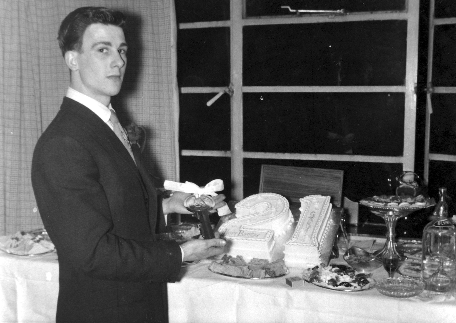 Gary Burne - 21st birthday